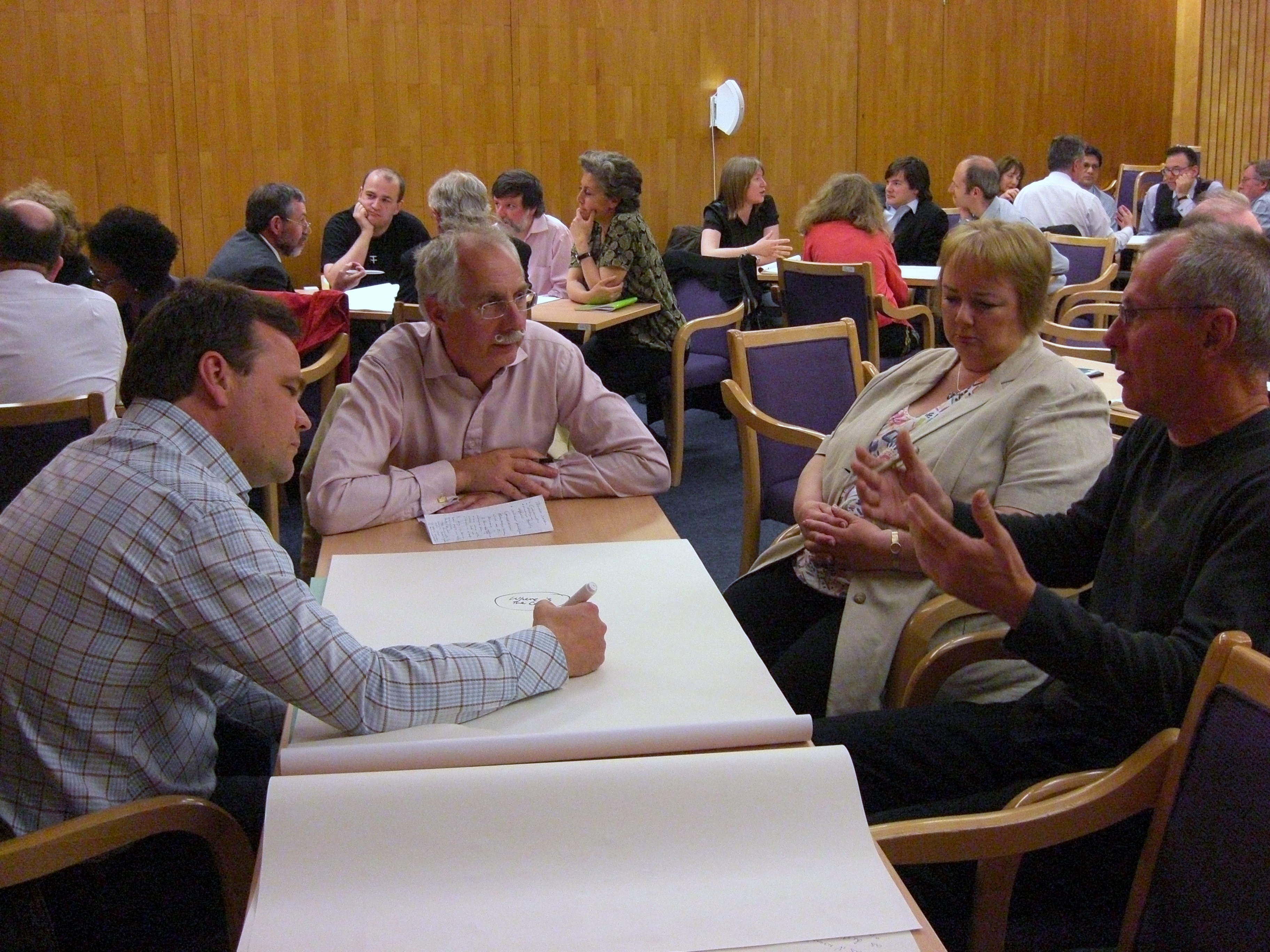 This photo shows a small group conversation session at a Gurteen Knowledge Cafe.